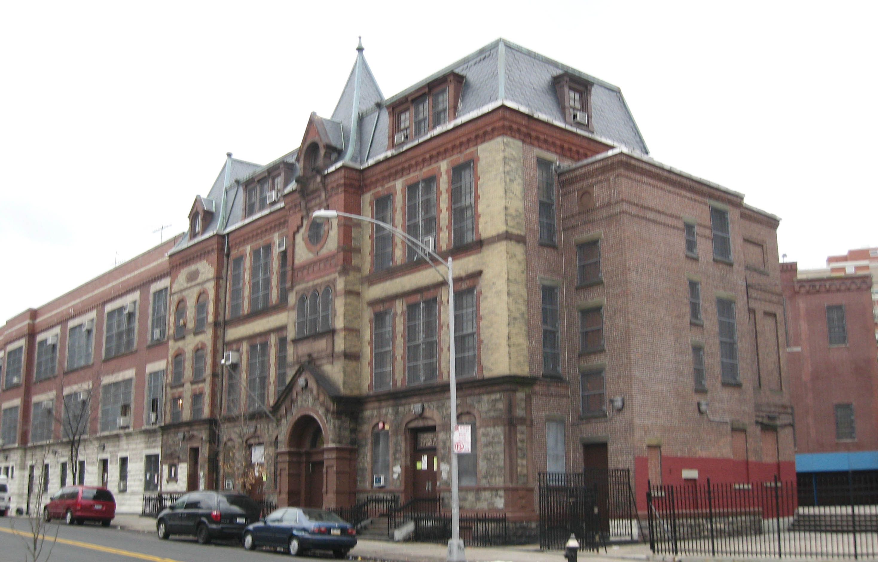 Looking west across Ogden Avenue at PS 91, now PS 11, designed by George W Debevoise 1889. Designated NYC Landmark, 1981